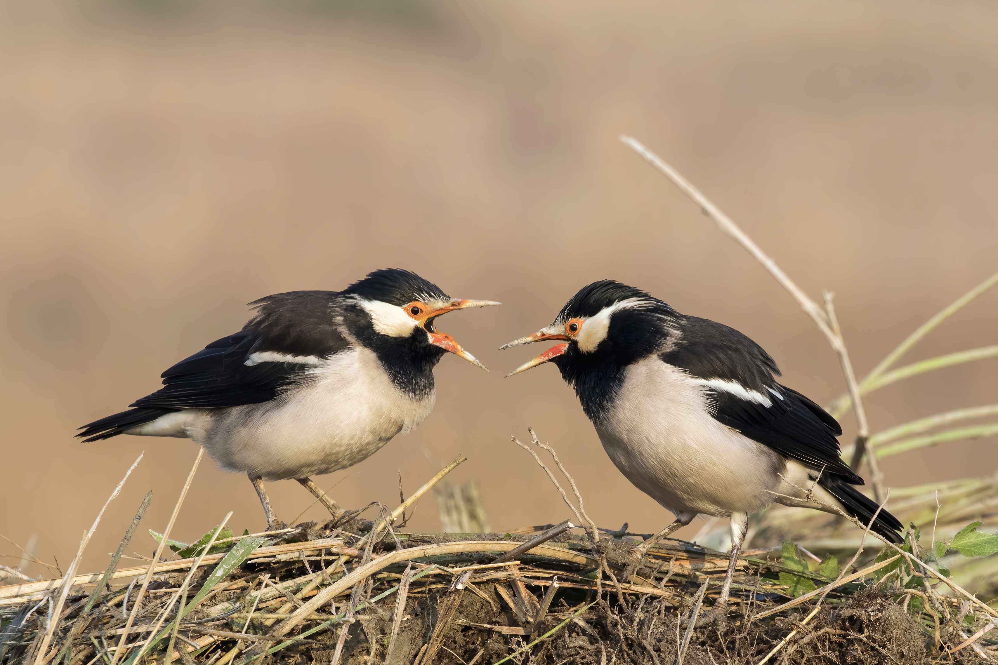 Asian pied starlings (Gracupica contra contra), Sali, Uttar Pradesh, India